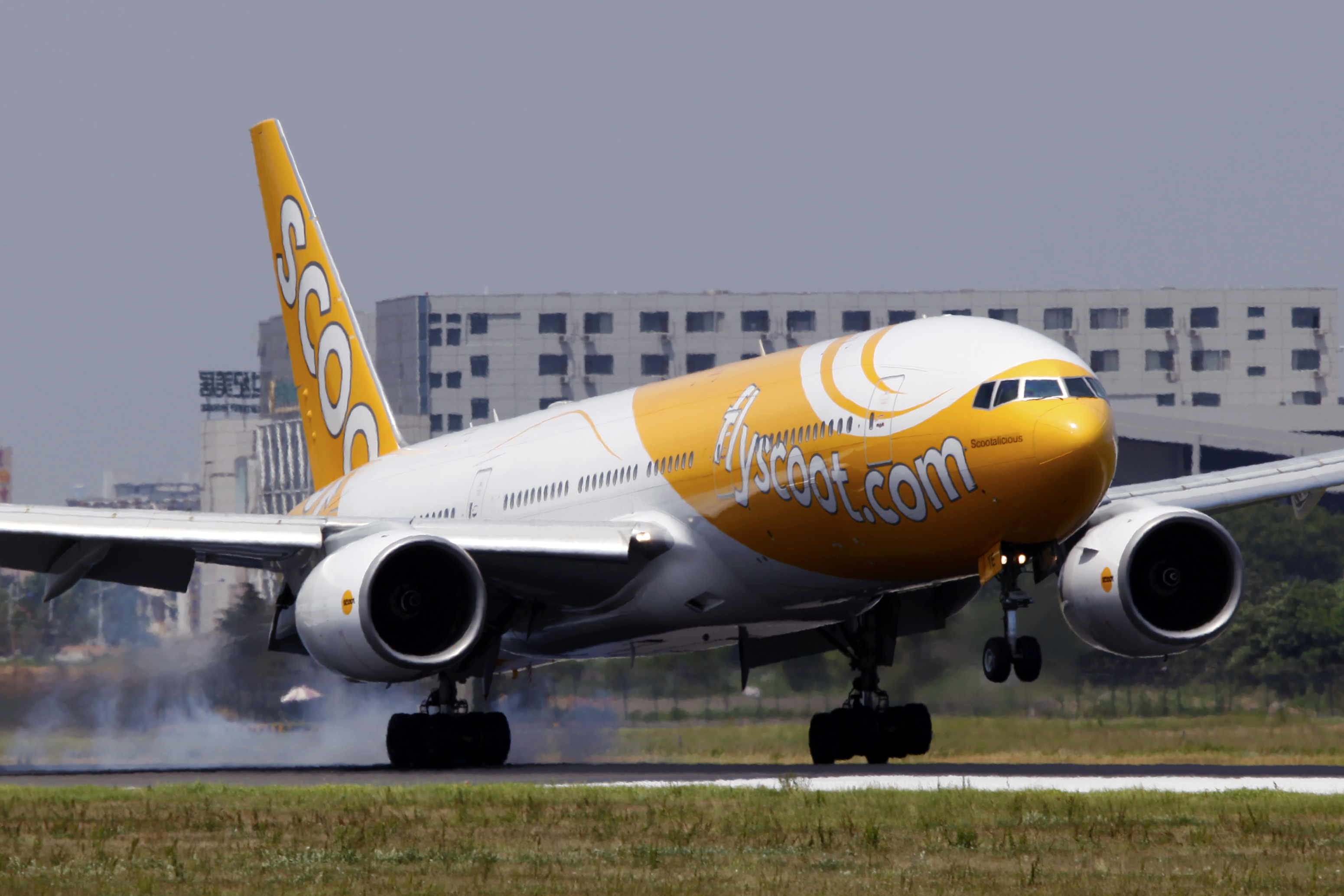 9V-OTE | Scoot | Boeing 777-212(ER) | Qingdao Liuting International Airport [TAO]